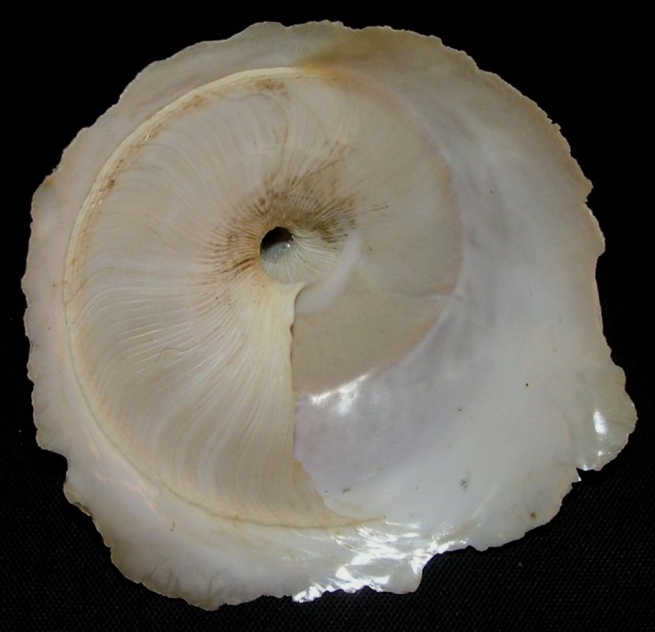 Photograph of the seashell Onustus indicus (Gmelin, 1791) underside view / Origin of image: Own collection. South China Sea (China).